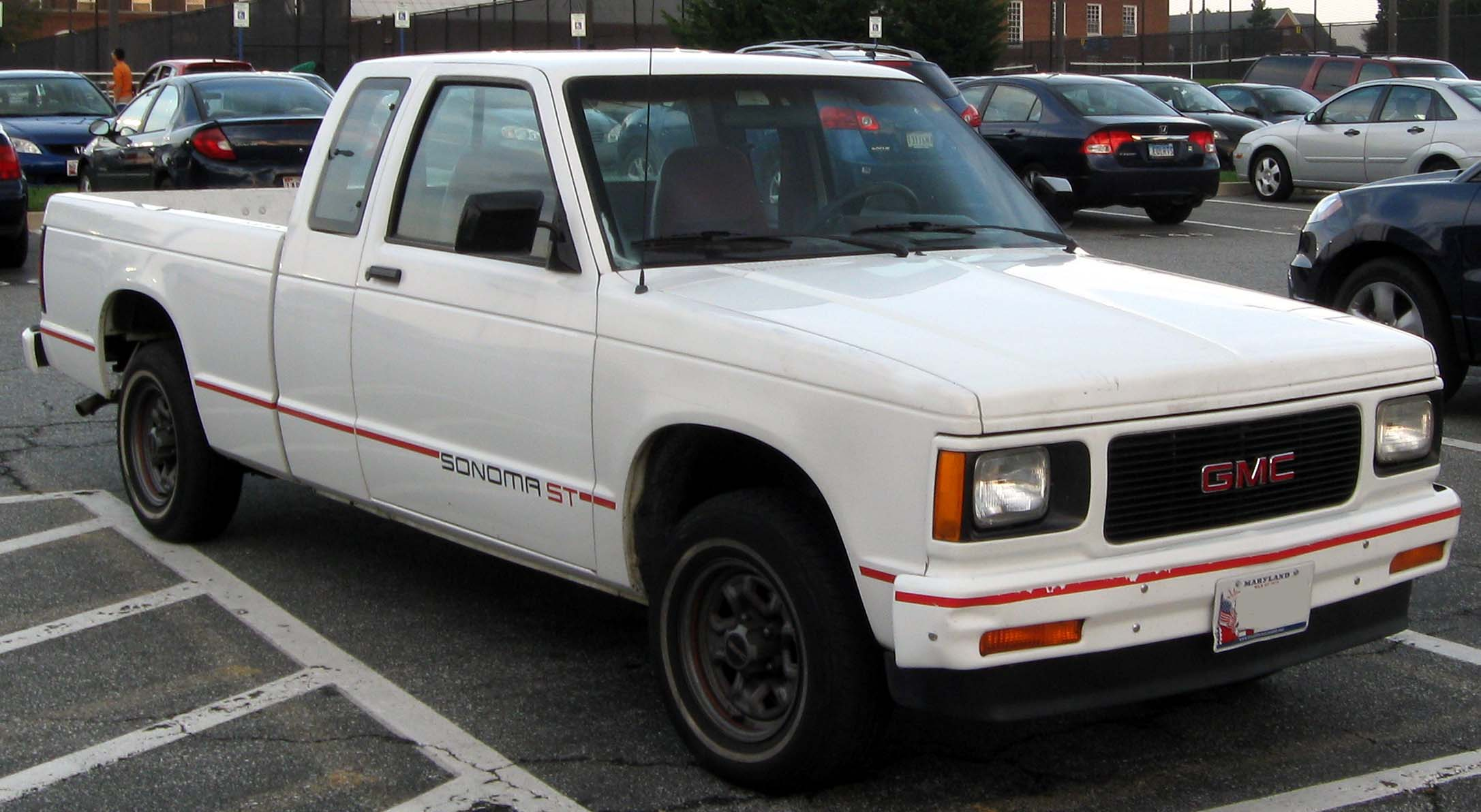 1991-1993 GMC Sonoma photographed in College Park, Maryland, USA.